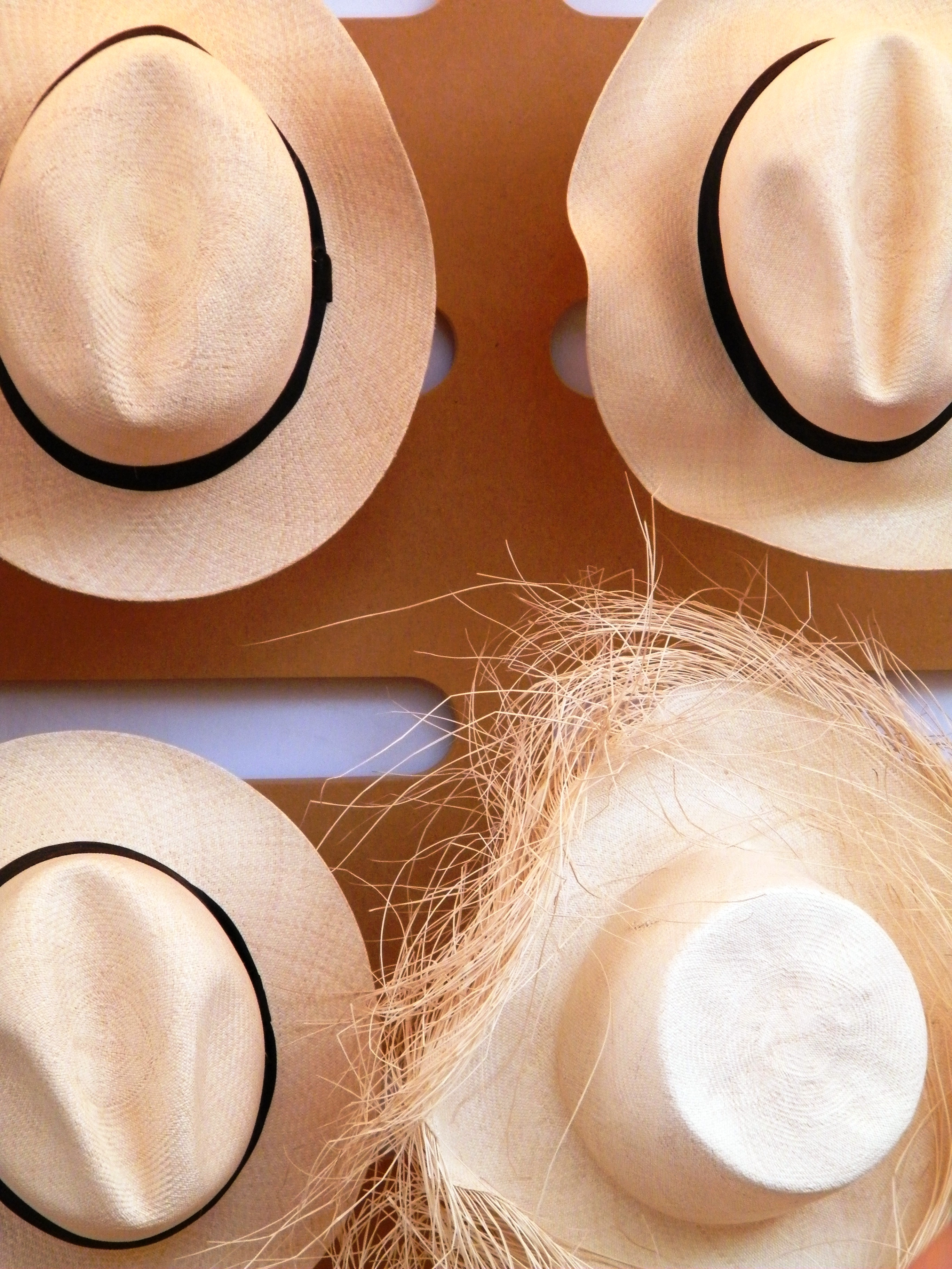 Panama hats at the Colombian exhibition at the Smithsonian Folklife Festival, 2011, Washington, D.C.